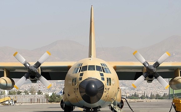 C-130 Hercules transport Military plane